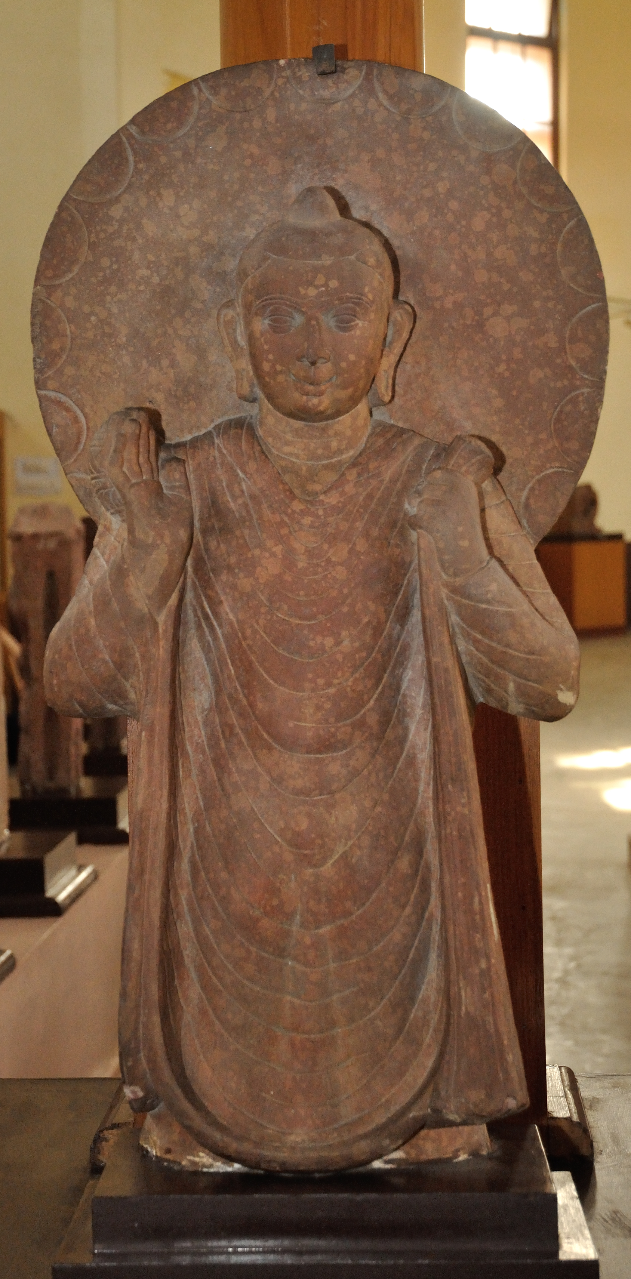 This artefact resides at the Government Museum, (hi: Rashtriya Sangrahalaya) formerly The Curzon Museum of Archaeology, Museum Road or Murari Lal Rajpal road, Dampier Nagar, Mathura, Uttar Pradesh, India. This museum is administrating by the State Government of Uttar Pradesh of India.